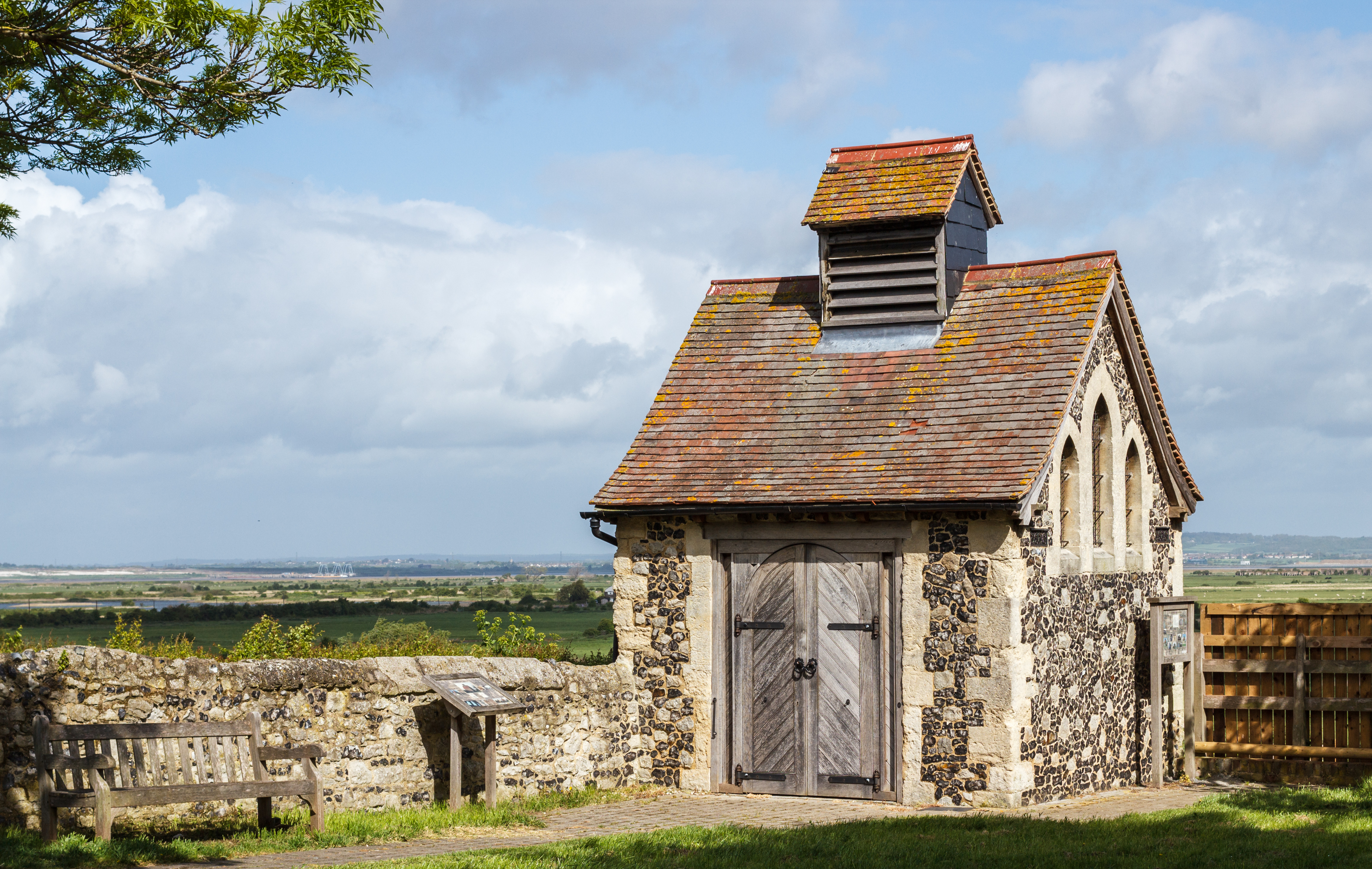 The Charnel House, located in a corner of the graveyard at St Helen's Church in Cliffe, Kent, England. The Charnel House was built during the mid 19th century. It was used as a make-shift mortuary until the bodies were taken away to be buried. Its location close to the river Thames is key as bodies found were washed up or floating along the Thames were retrieved and taken to the charnel house to be stored awaiting identification and burial. The building continued to be used until the start of the twentieth century, when a series of Public Health Acts forced buildings such as this to become redundant. After this, the Church used it for storage and at one time a hive of bees was also put in there to deter intruders. It is now classified as a Grade II listed building by English Heritage.